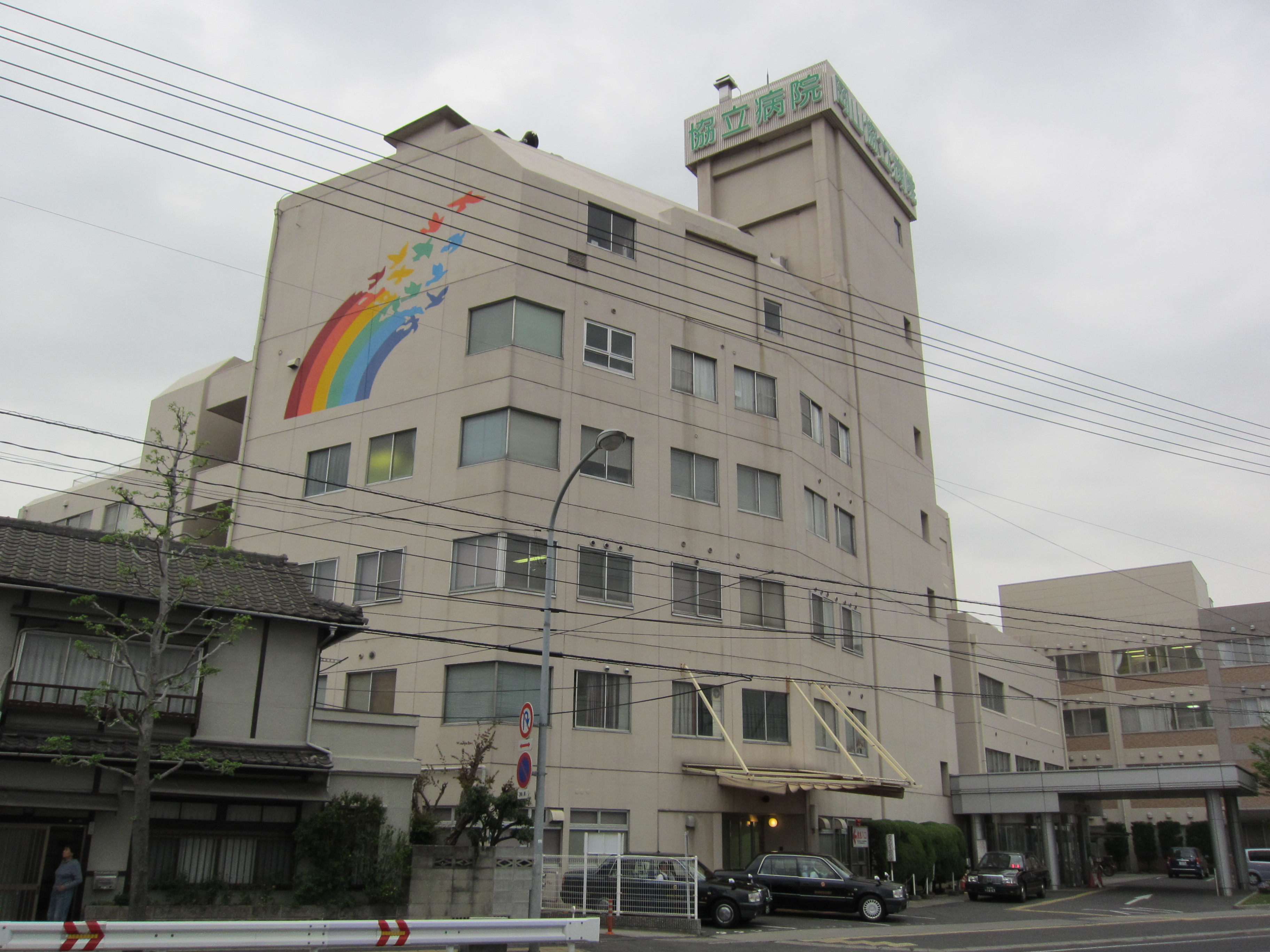 Okayama Kyoritsu Hospital